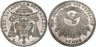 Italy, Papal States. Sede vacante. Cardinal Tommaso Riario-Sforza. AR Scudo (26.98 g). Dated 1846. SEDE VACANTE MDCCCXXXXVI, Riario-Sforza coat-of-arms surmounted by canopy, crossed keys, and cardinal's cap; R (mint) and NIC C (Niccolò Cerbara, engraver) in exergue NON RELINQVAM VOS ORPHANOS, SCUDO in exergue, radiate dove flying facing, head right. CNI XVII pg. 281, 2; Muntoni 2; Berman 3295; KM 162.